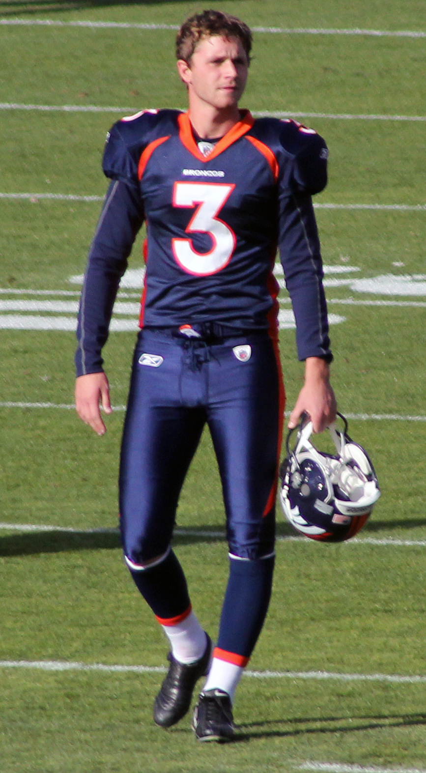 Steven Hauschka, a player on the Denver Broncos American football team.